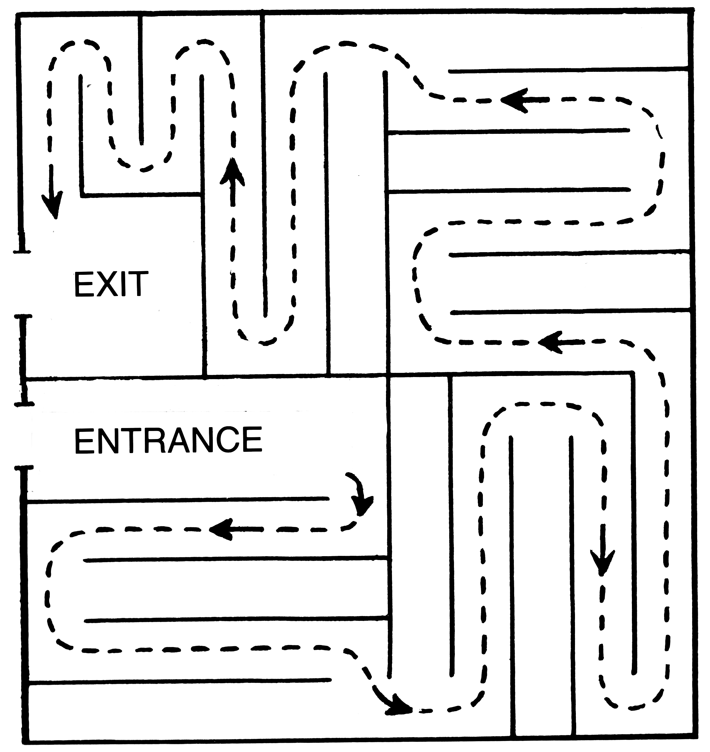 Line drawing of Labyrinth Maze